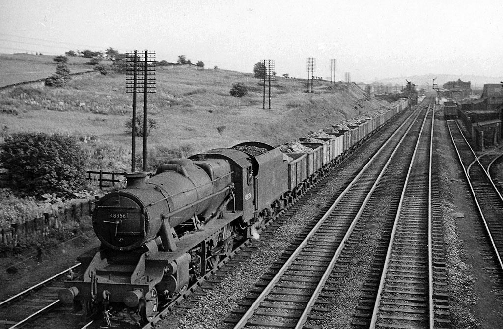 Down iron ore train north of Chesterfield (Midland). View southward from just north of Chesterfield Station - just visible, showing a Down iron ore train, from the Northamptonshire ore-fields to the South Yorkshire (Don Valley) blast-furnaces. The locomotive is - once again a Stanier 8F 2-8-0, No. 48356.